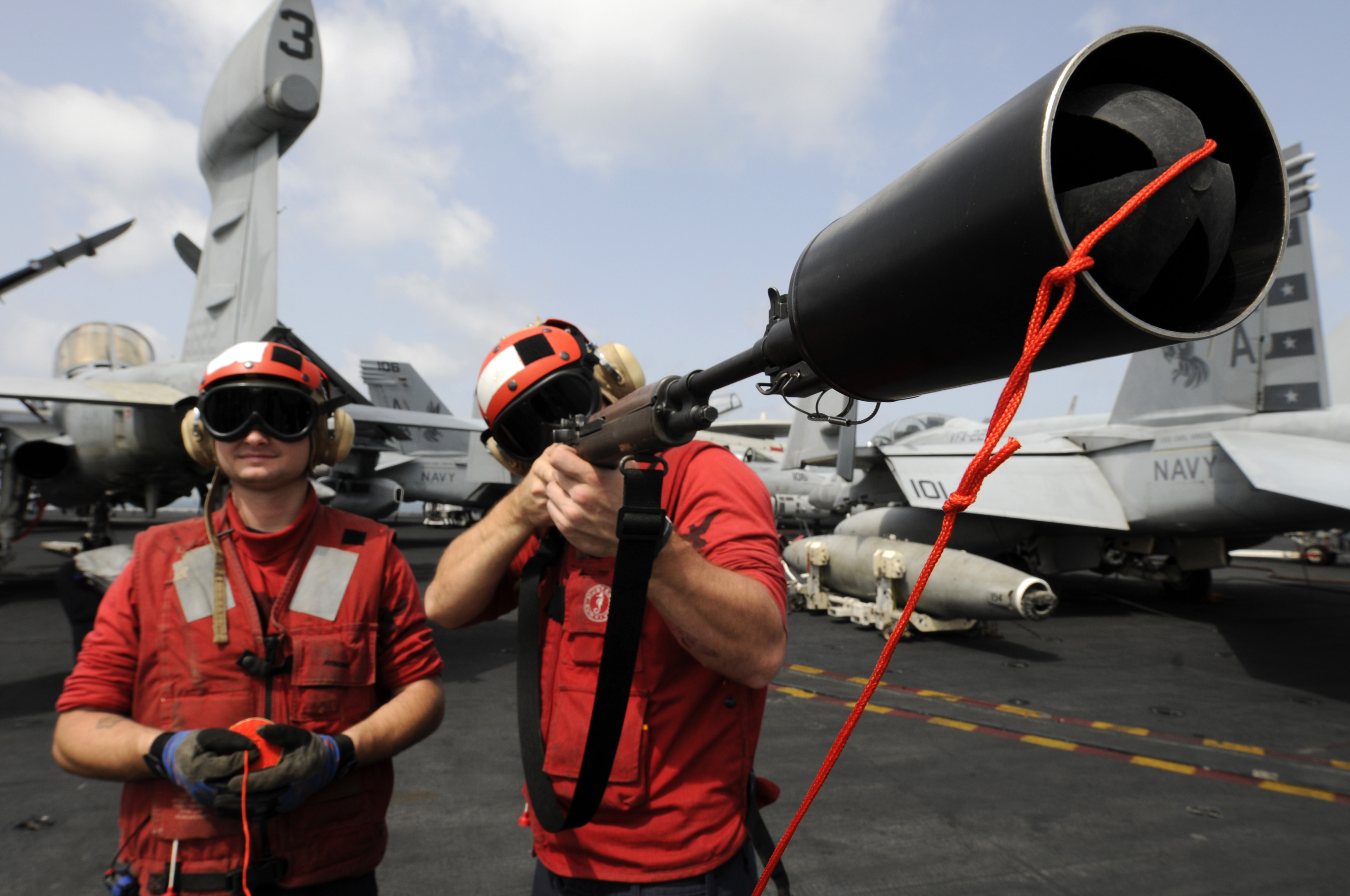 ARABIAN SEA (Feb. 25, 2011) Gunner's Mate 2nd Class Michael Pryor and Gunner's Mate 2nd Class Shane Oster, both assigned to the weapons department of the Nimitz-class aircraft carrier USS Carl Vinson (CVN 70), prepare to shoot a phone and distance line during a replenishment at sea. The Carl Vinson Carrier Strike Group is deployed supporting maritime security operations and theater security cooperation efforts in the U.S. 5th Fleet area of responsibility. (U.S. Navy photo by Mass Communication Specialist 3rd Class Christopher K. Hwang/Released)